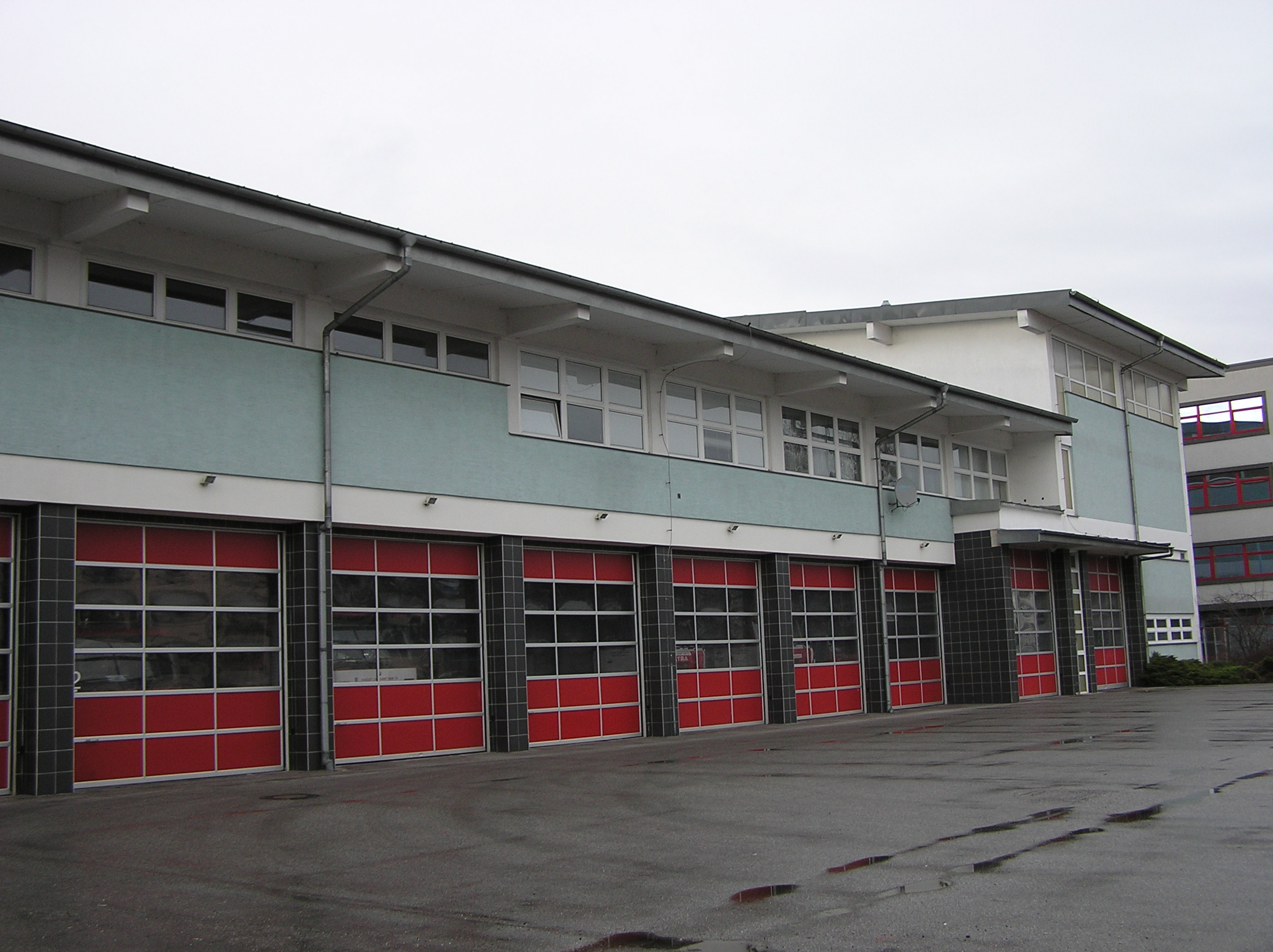 Fire and ambulance station in Pardubice, Czech Republic